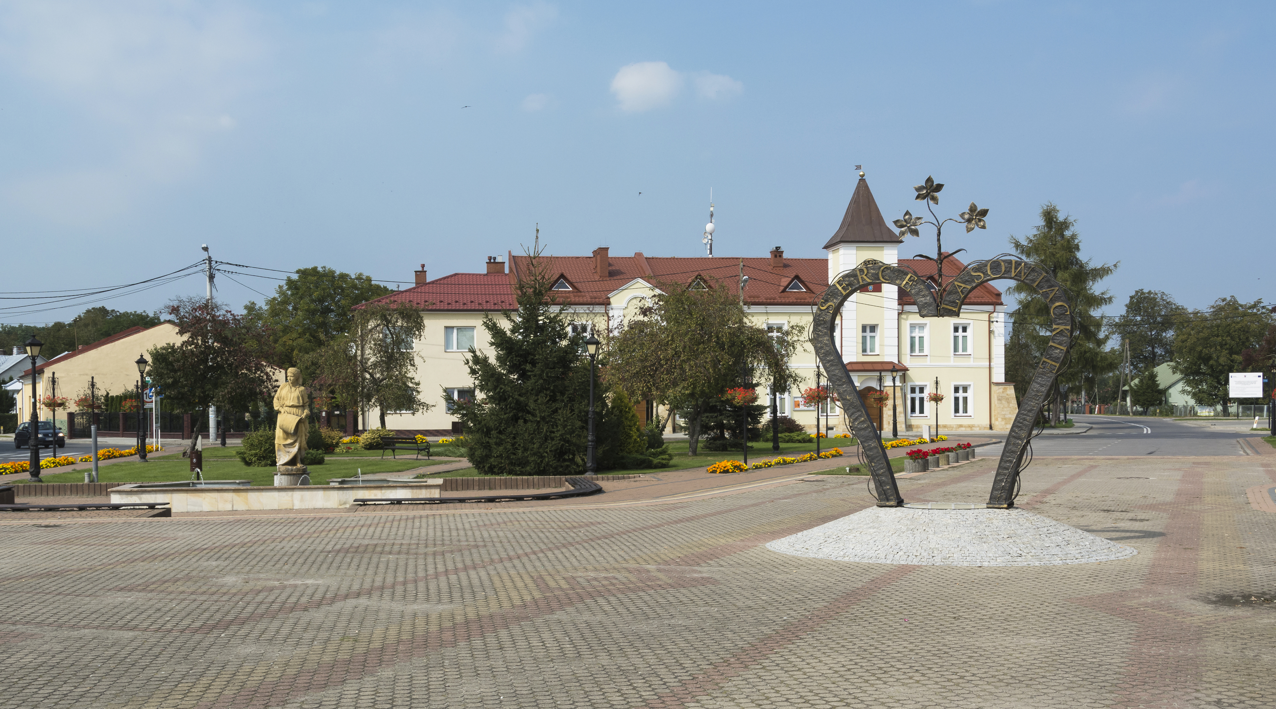 Market in Baranów Sandomierski